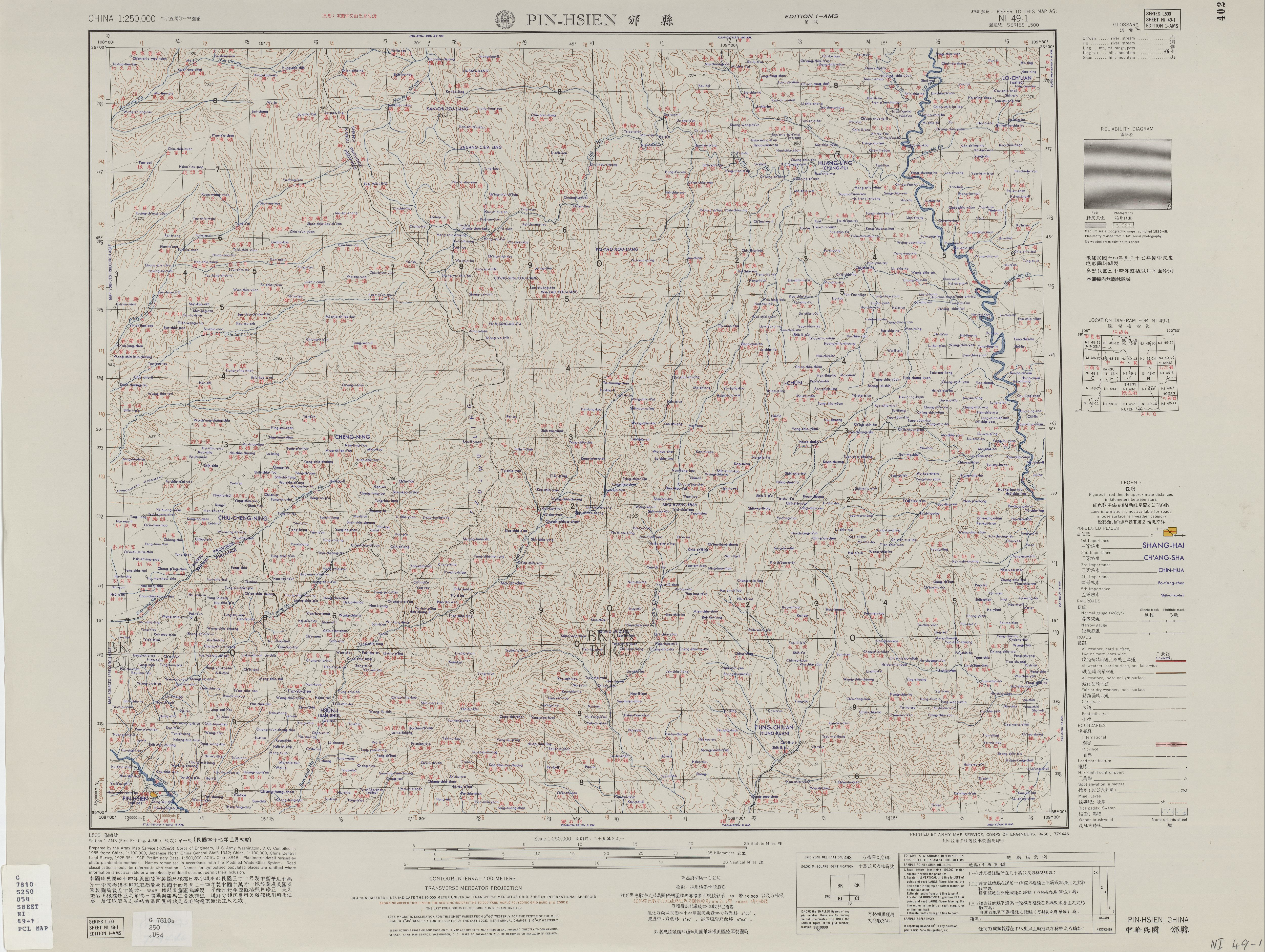 China AMS Topographic Maps